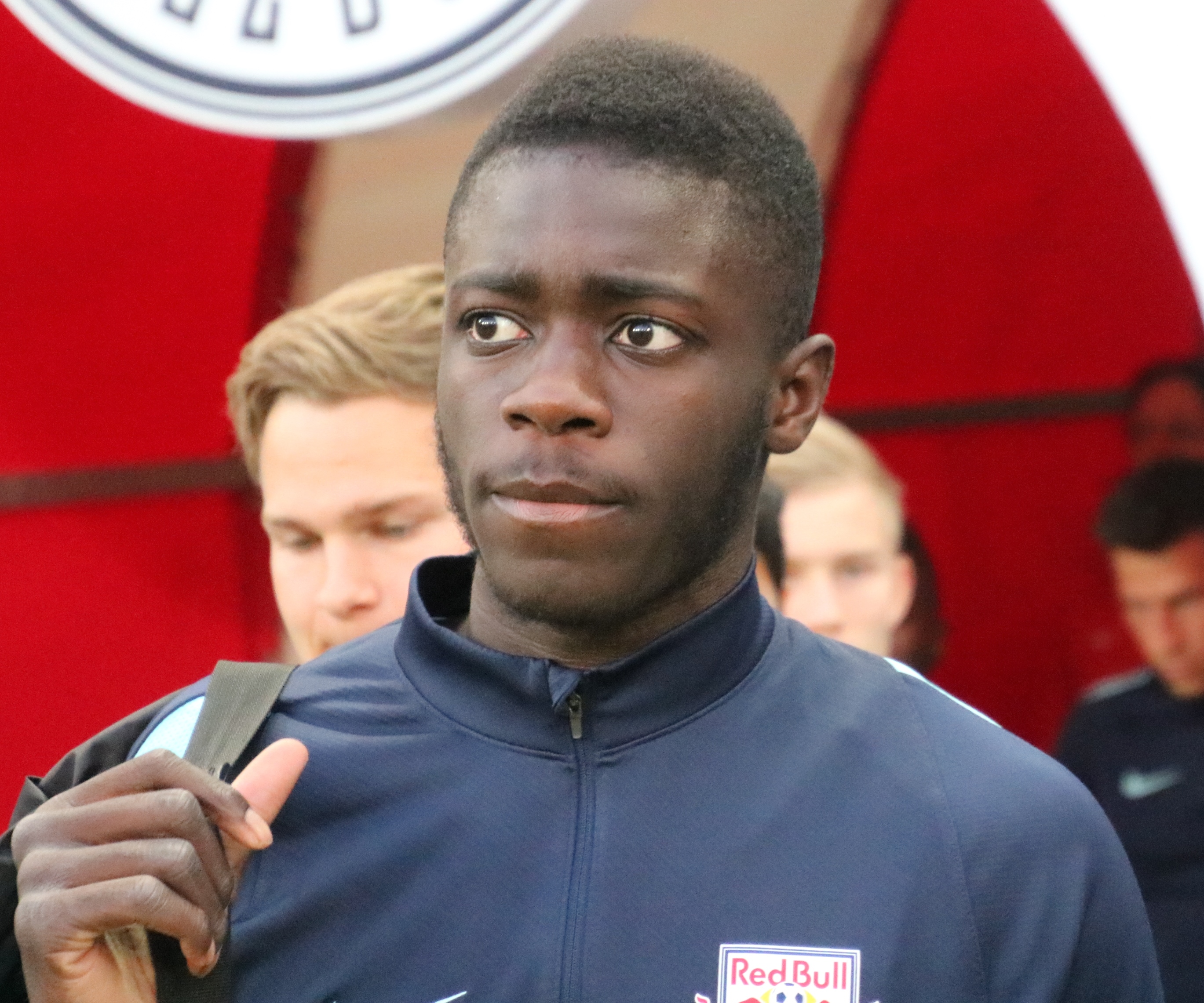 Cup semifinal match